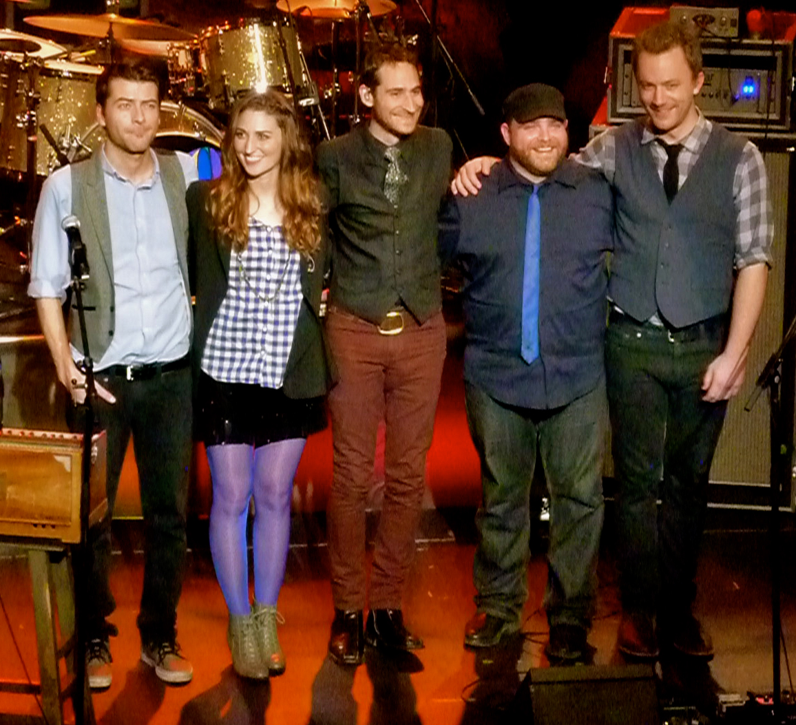 Sara Bareilles and her band at the end of her show at the Warfield, San Francisco, CA. December 16, 2010. From left to right: Javier Dunn, Sara Bareilles, Fil Krohnengold, Josh Day, Daniel Rhine.